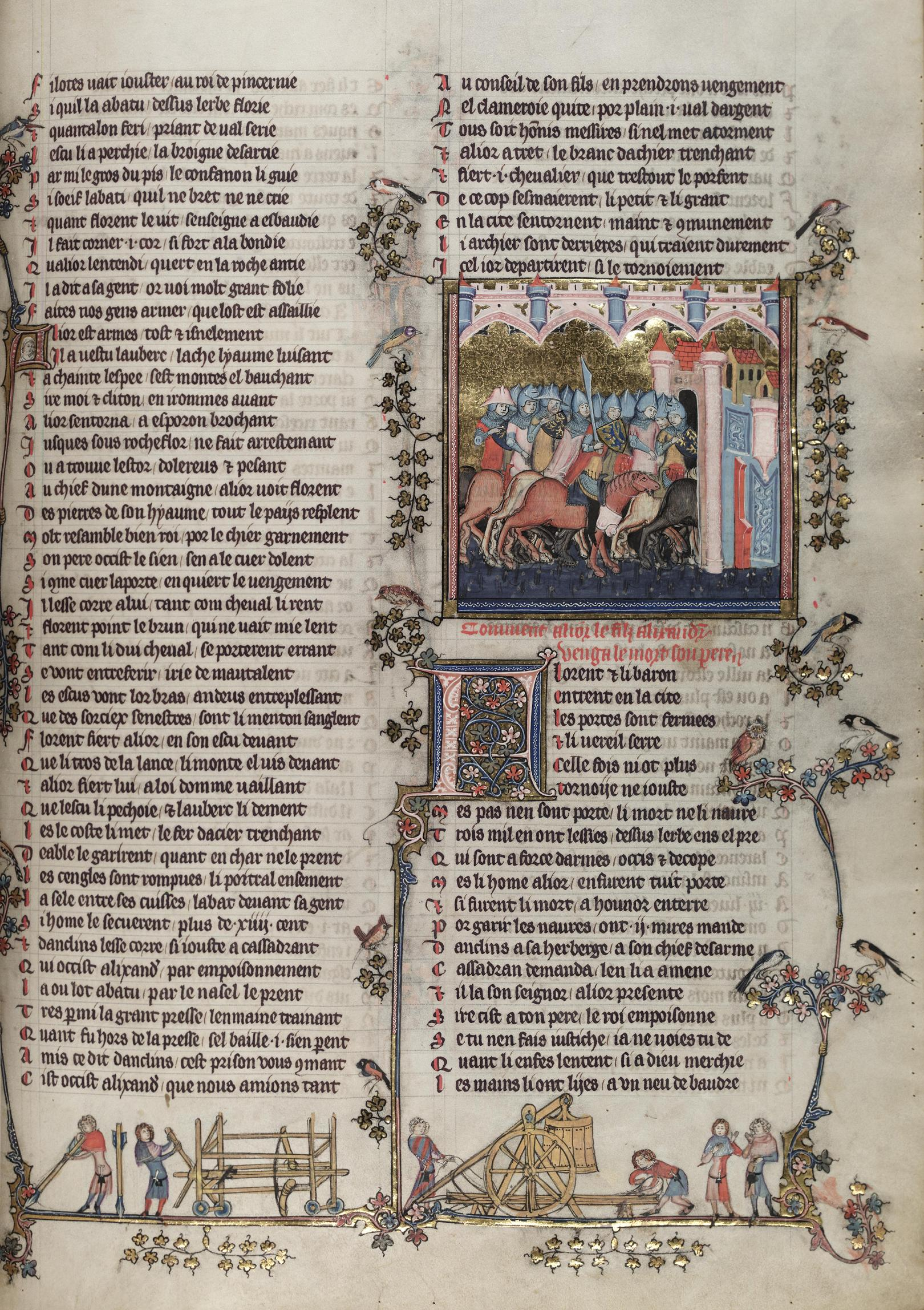 Old French manuscript Roman d'Alexandre (Romance of Alexander the Great), completed in 1344 in Tournai. Fol. 201r.